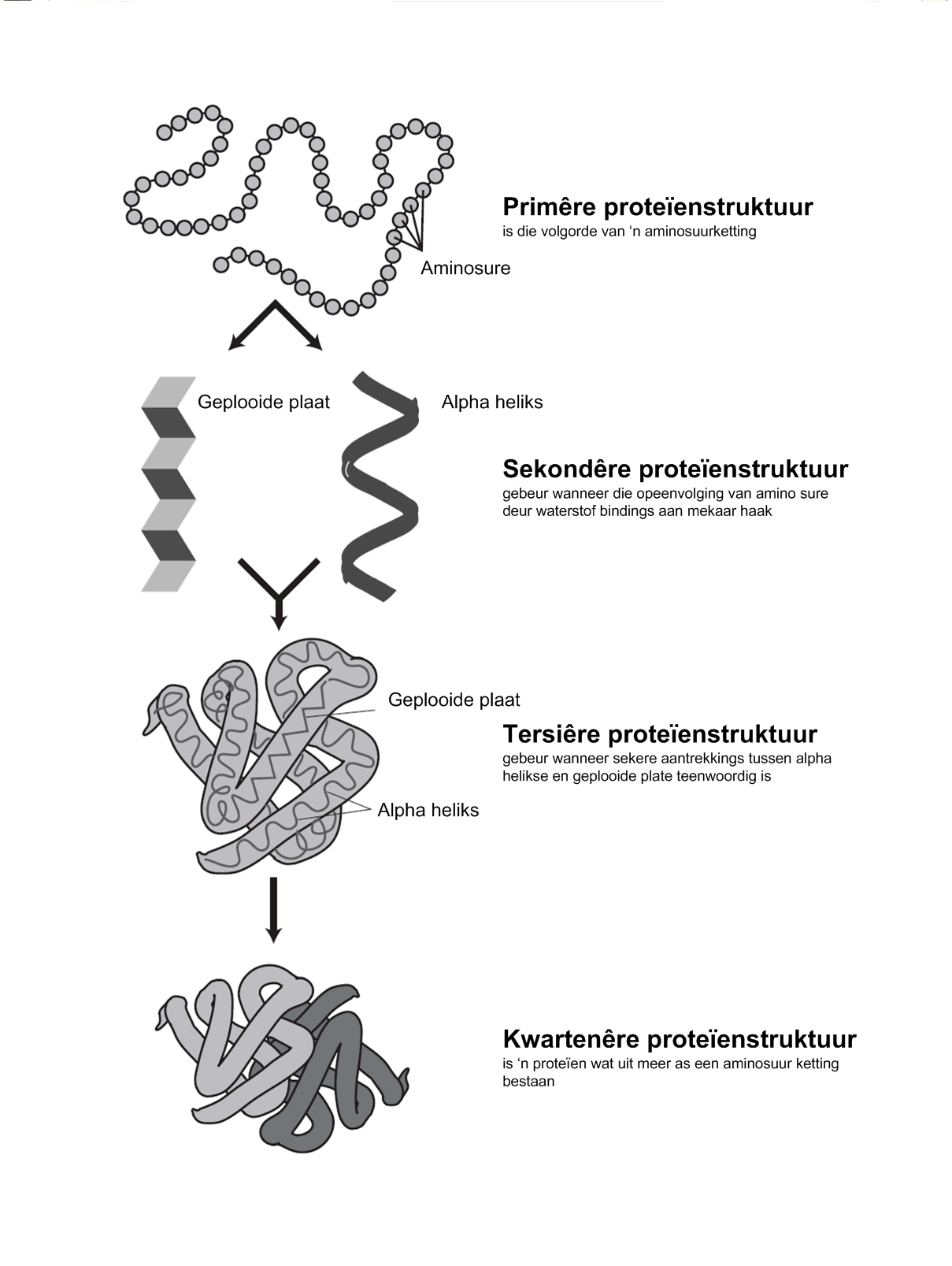 Protein structure.